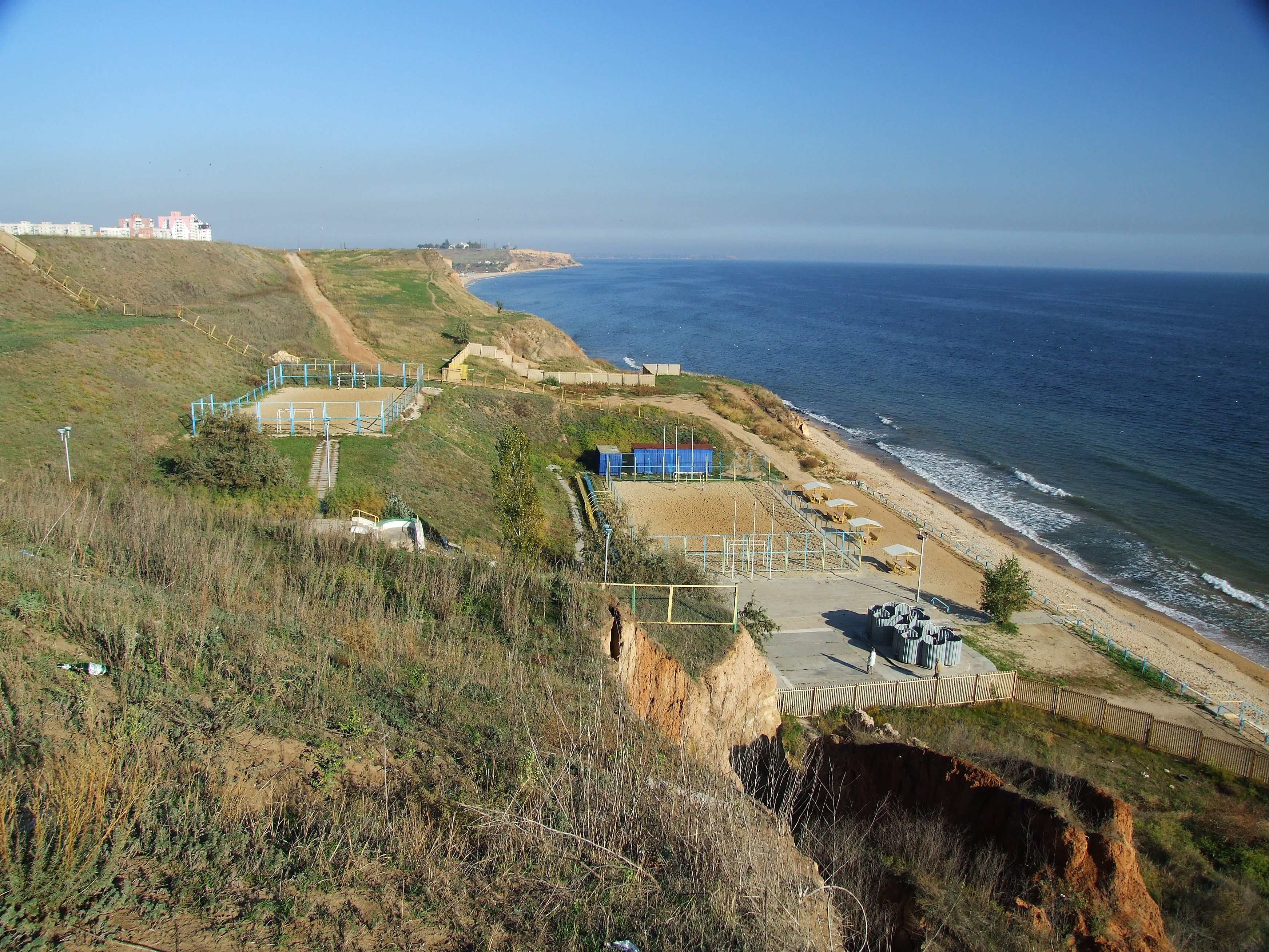 A beach of city of Yuzhne, Odessa Oblast, Ukraine